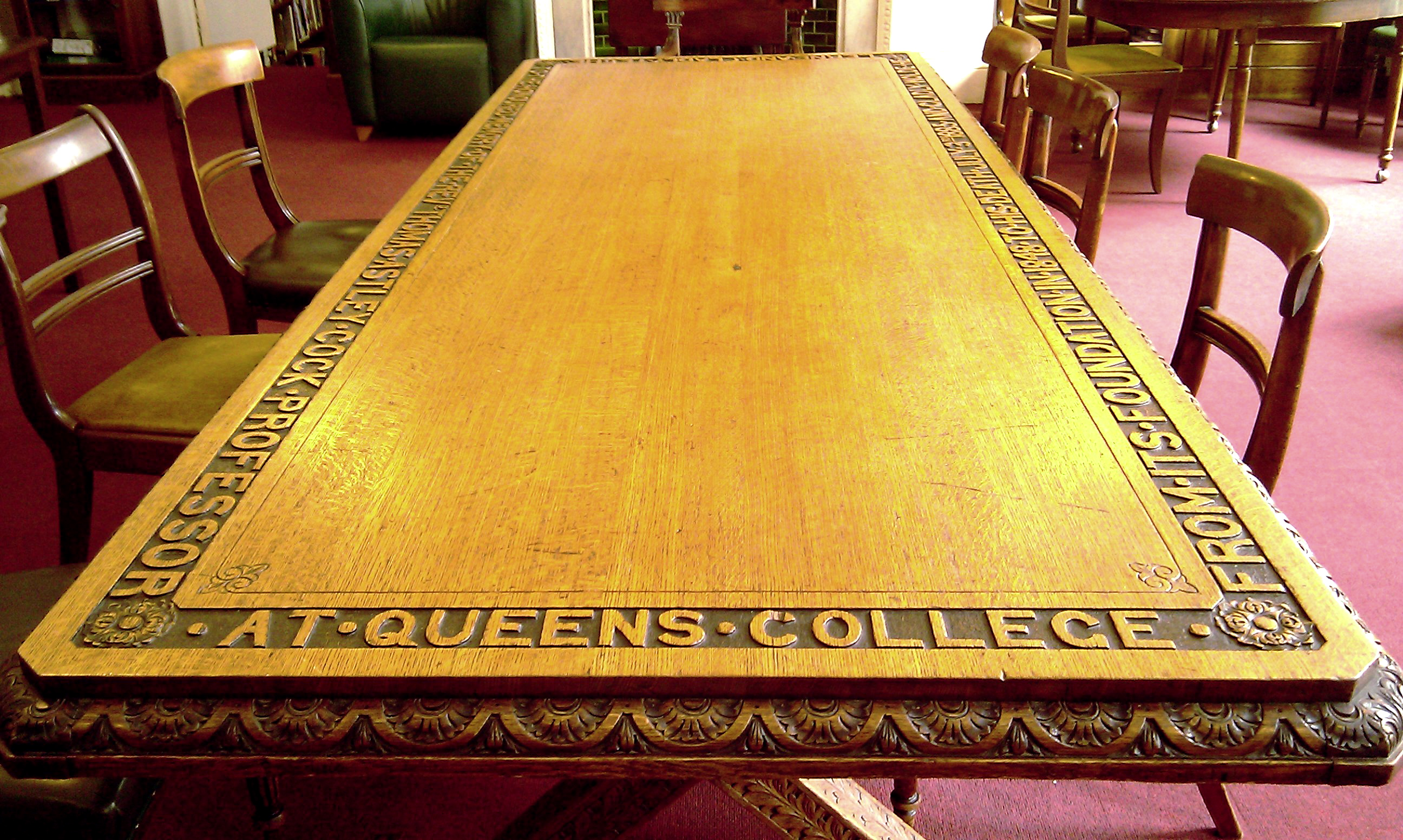 Desk in the Senior Library, Queen's College, London